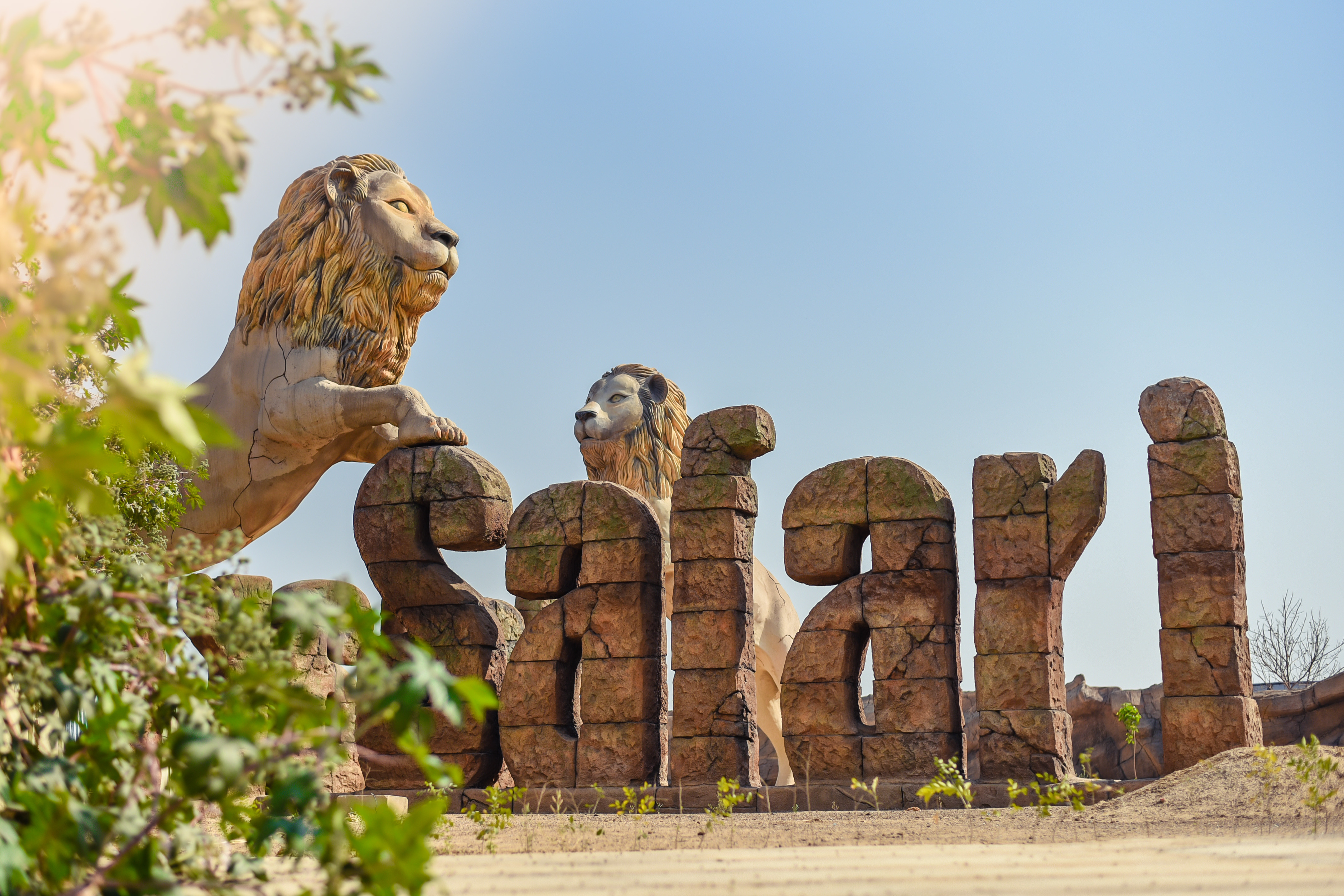 This image represents the "safari" structure created at park.